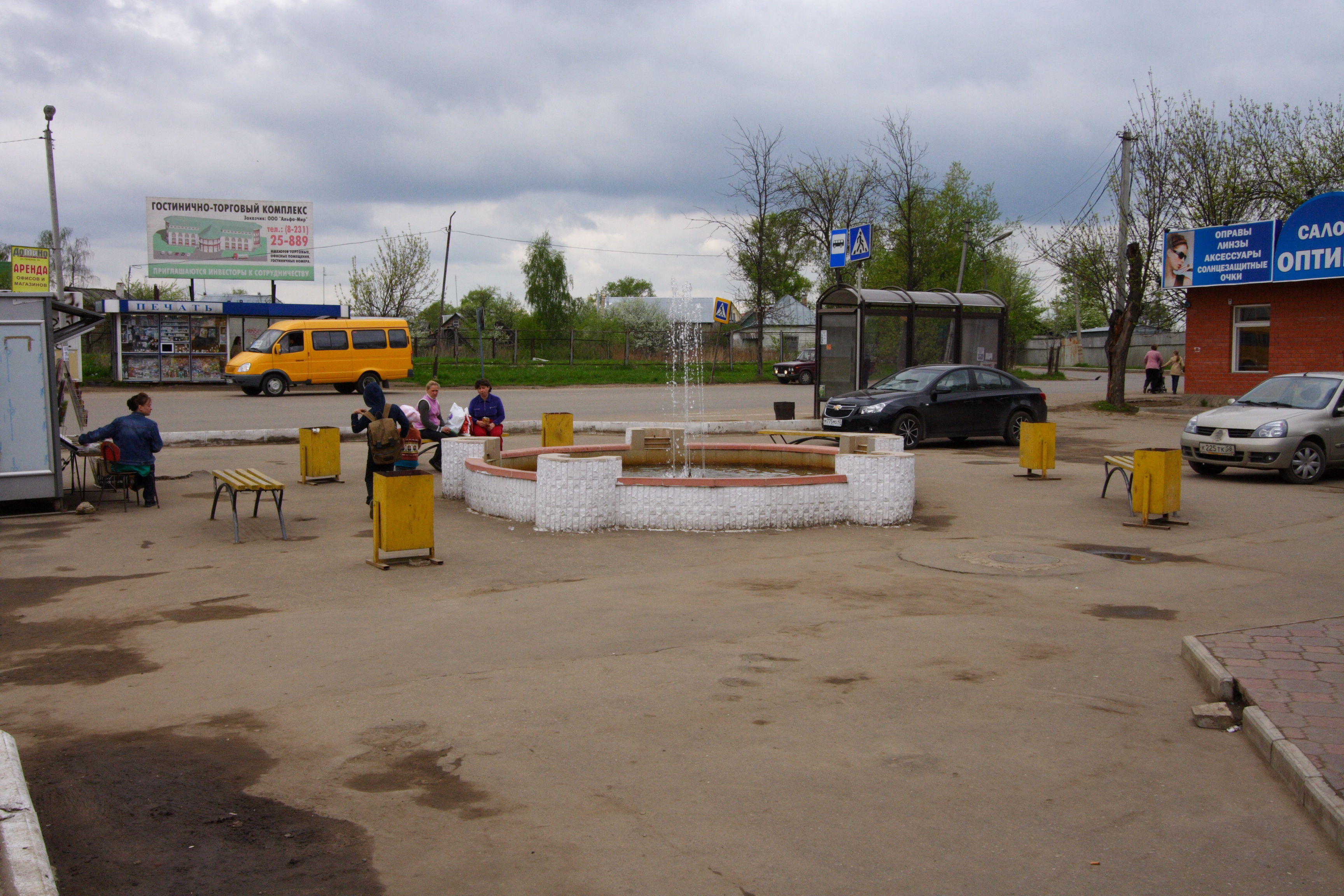 near the Maloyaroslavets's train station